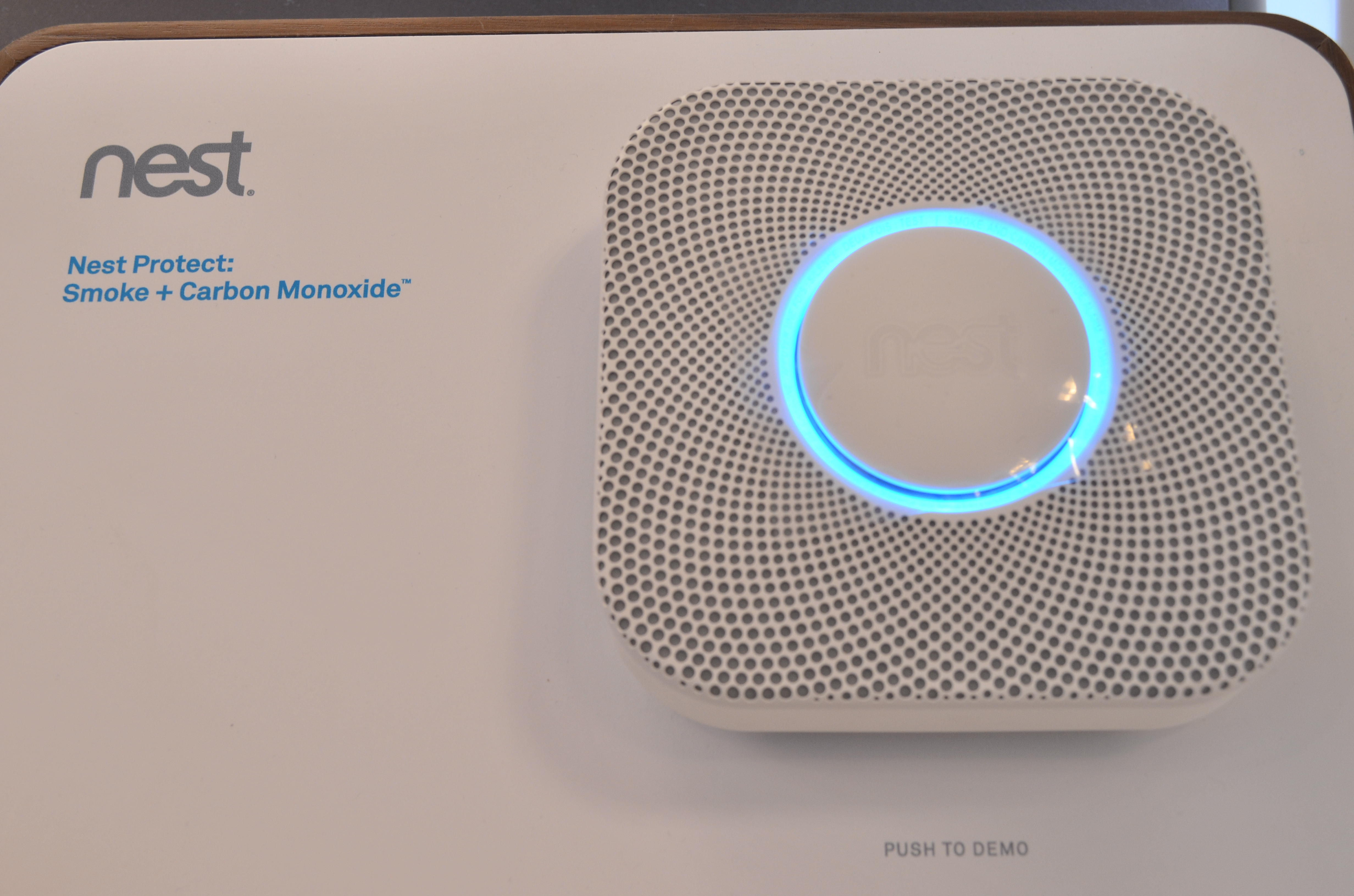 Nest Protect by Nest Labs